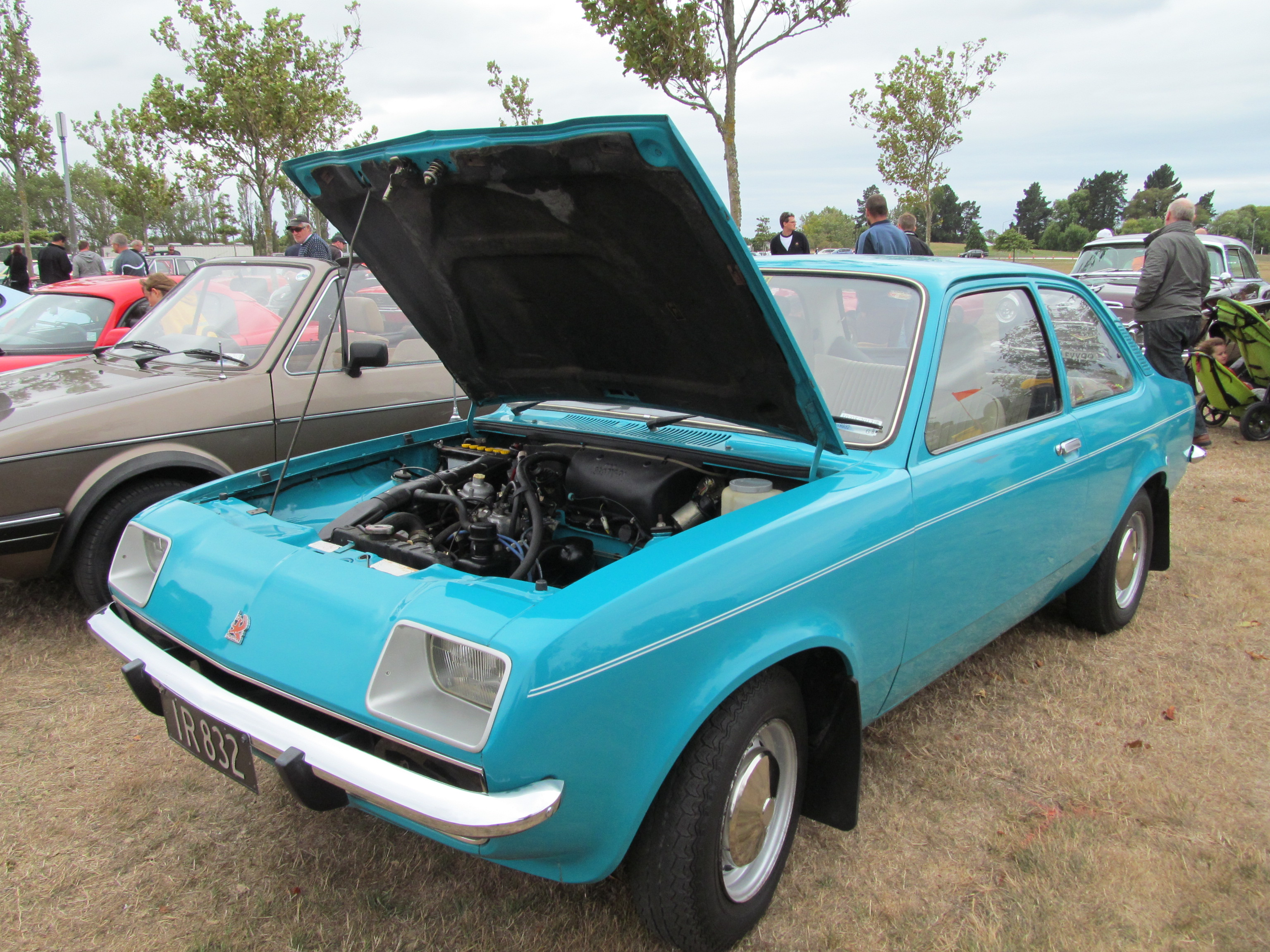 IR832 This was an absolute minter! It had one Ashburton owner from new until the current owner (who I spoke to) bought it last month. There is no rust anywhere, and the seats and engine are so clean you could eat off them. The only difference to when it left the showroom in 1978 (it was registered in the new year as a '77) is the higher placing of the number plate.